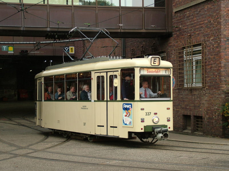 Historic tramcar 337 (type Verbandswagen II, former Hagener Strassenbahn) of the Bergische Museumsbahn (Wuppertal) on a special ride in Bochum, 2005-09-16